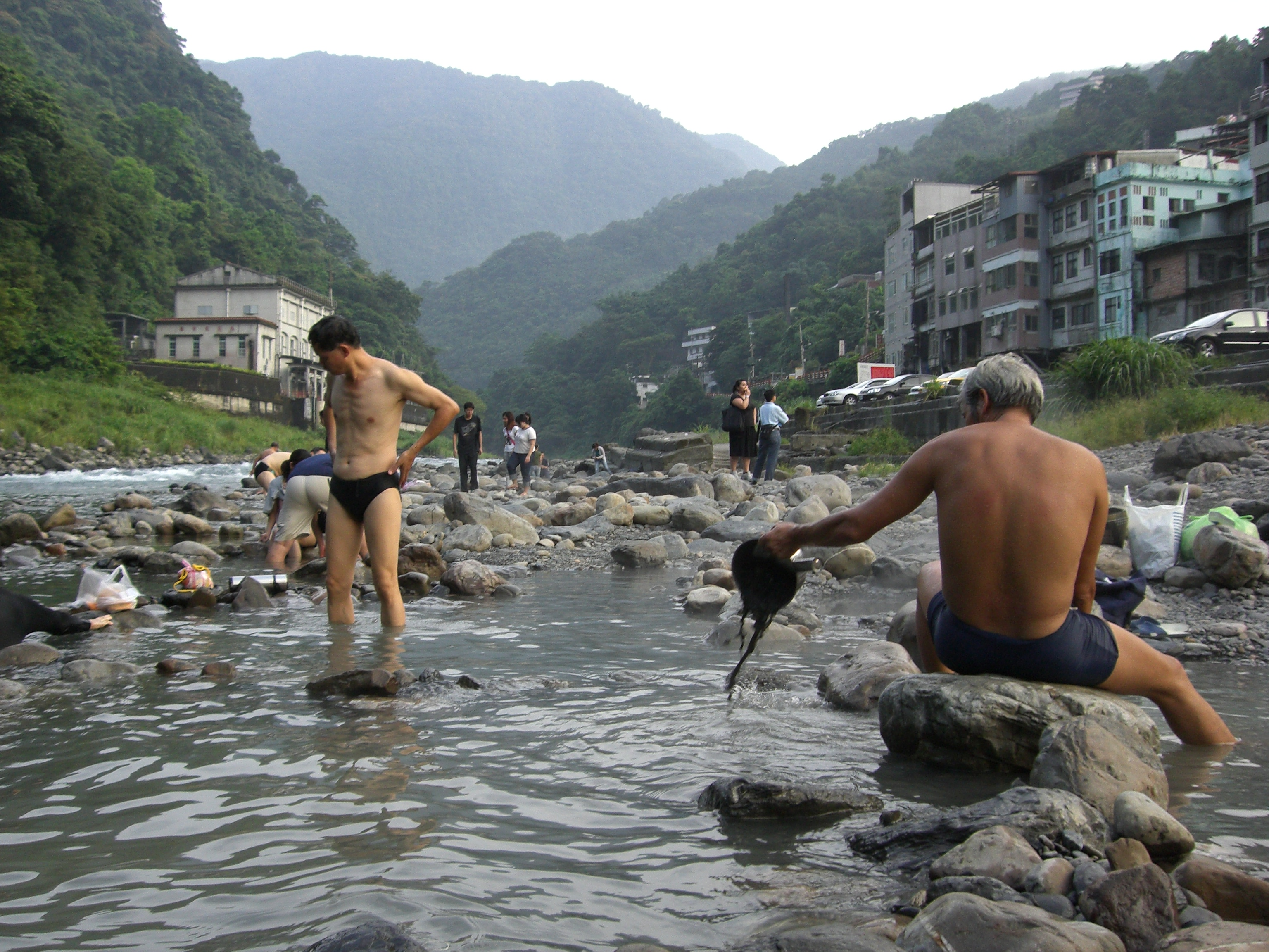 The free hot spring on the banks of the river. Make your own rock pool!